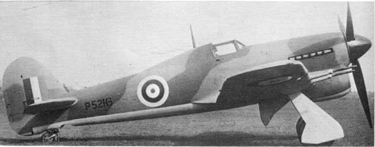 Second prototype Hawker Typhoon P5216 shows RAF camouflage scheme, with yellow undersurfaces used by prototypes, modified exhaust stubs and 4 cannon armament.